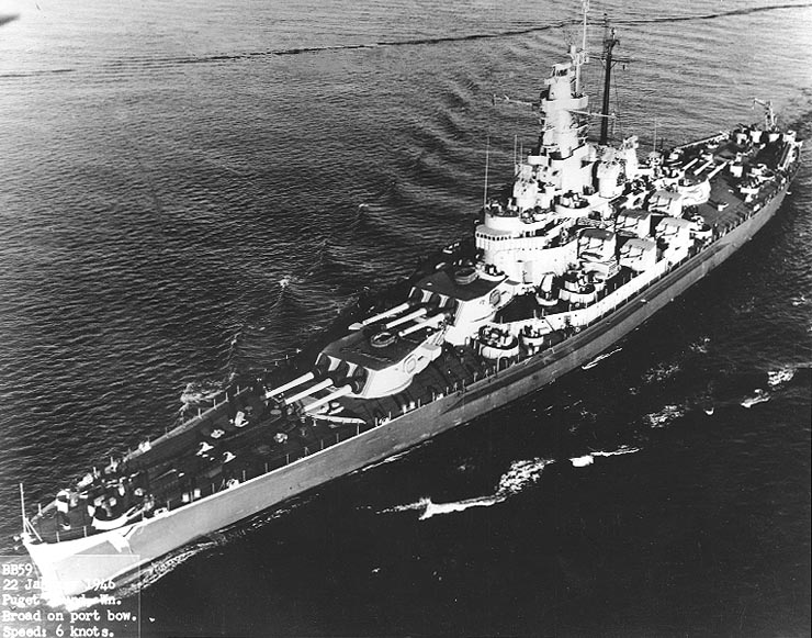 Removed caption read: Photo # NH 46430 USS Massachusetts in Puget Sound, January 1946